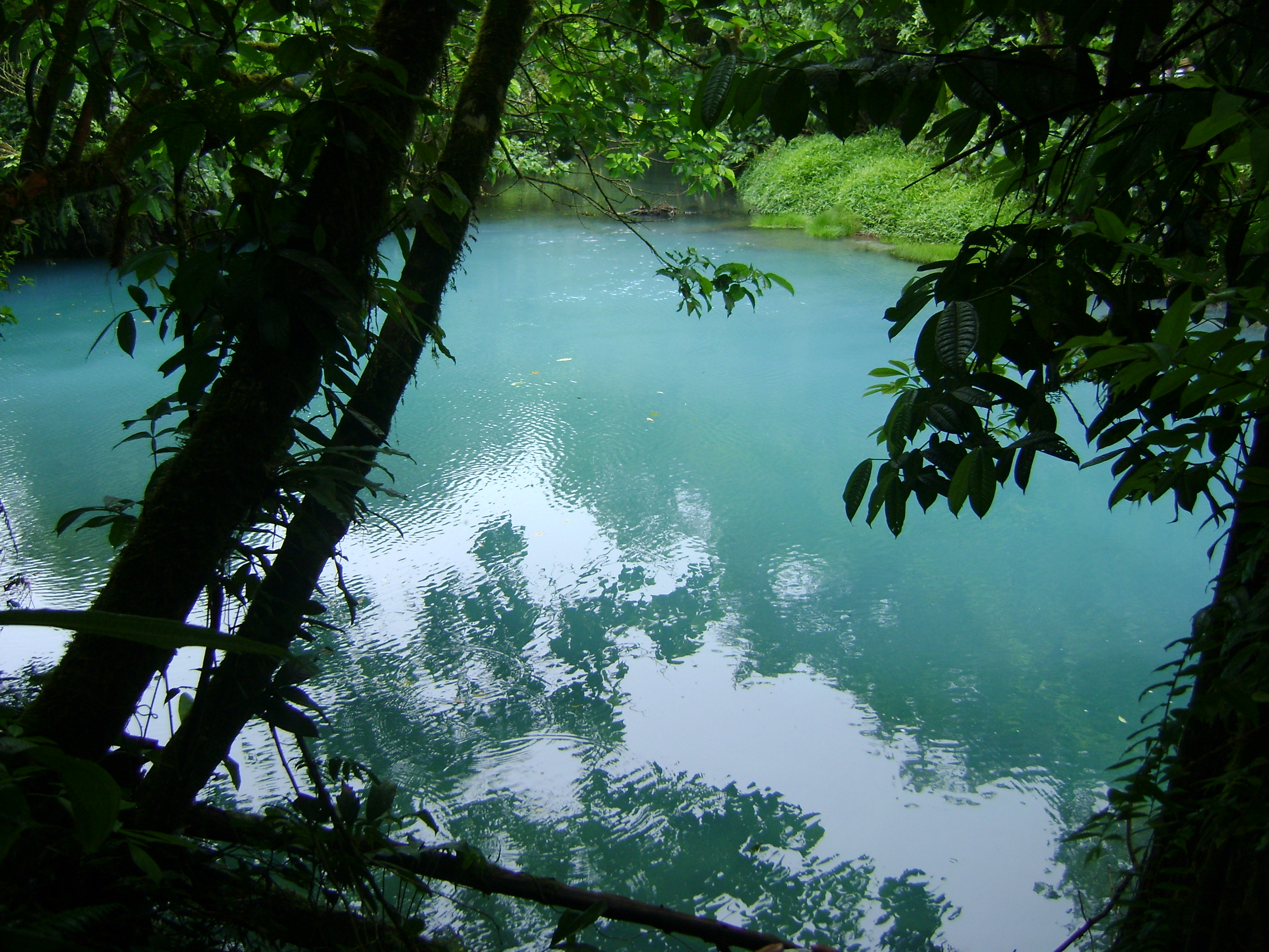 Laguna Azul, rio Celeste, Volcan Tenorio National Park